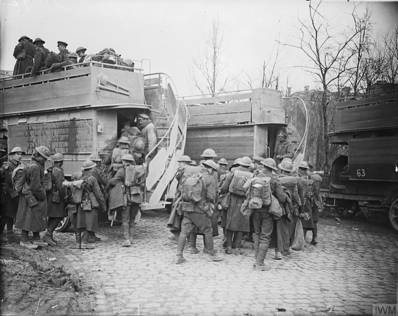 Troops embussing in Arras to go back for a rest having taken part in the Battle of Arras. The buses being used are London 'B' type buses, some 1,300 of which were requisitioned by the army in October 1914 as troop-carriers on the Western Front.